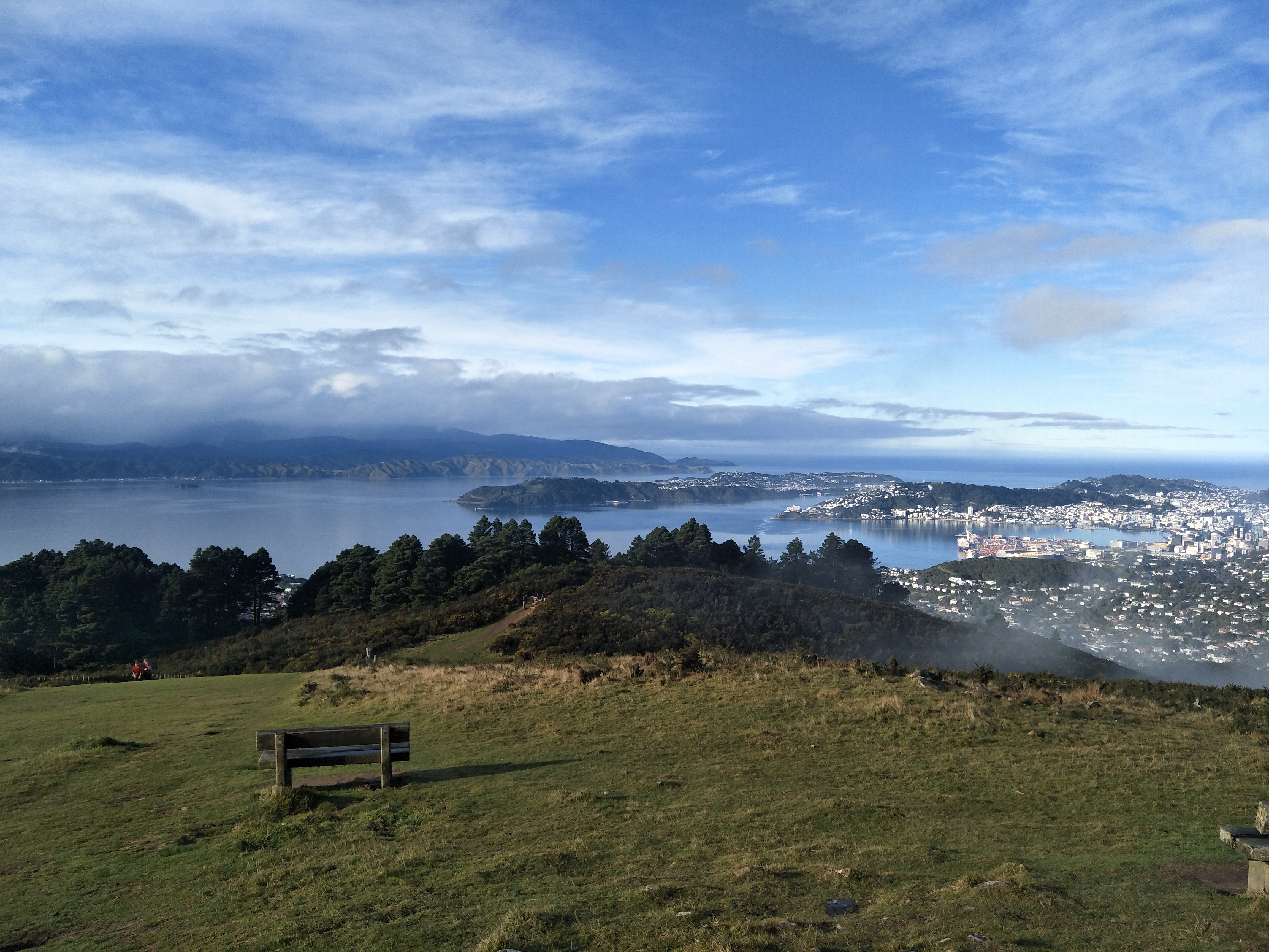 View of Mirimar Peninsula from the peak of Mount Kaukau